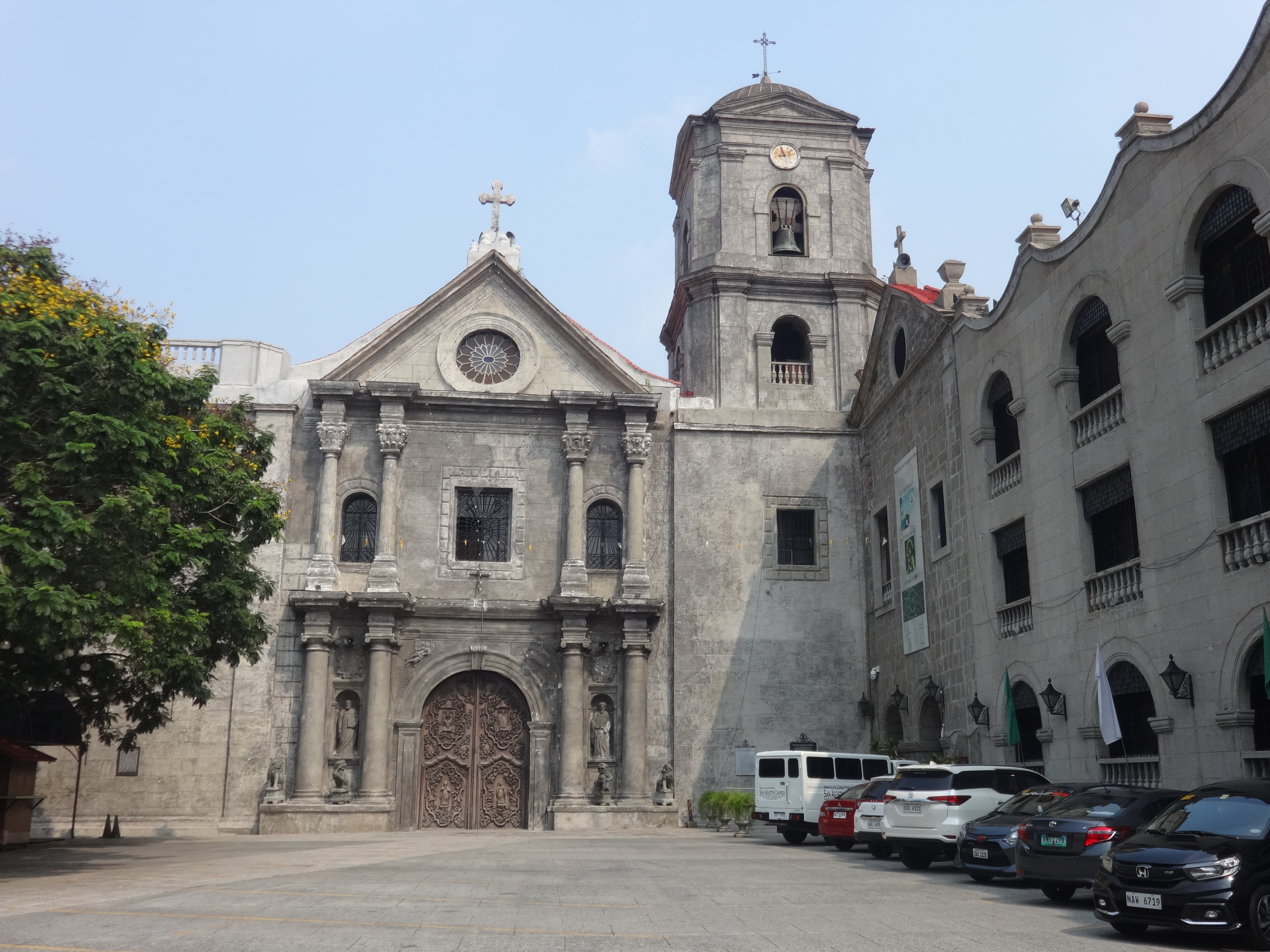 The UNESCO-certified San Agustin Church in Intramuros, Manila